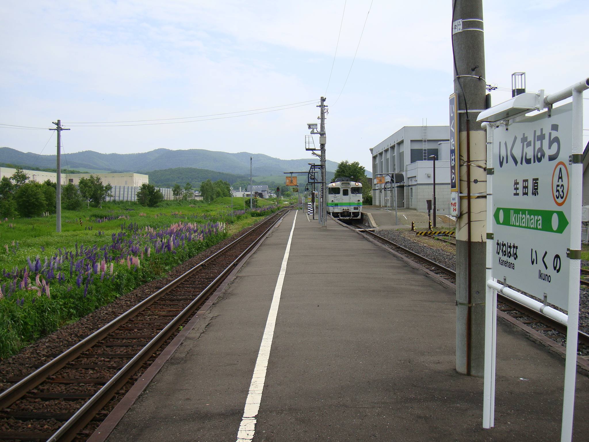 Ikutahara Station